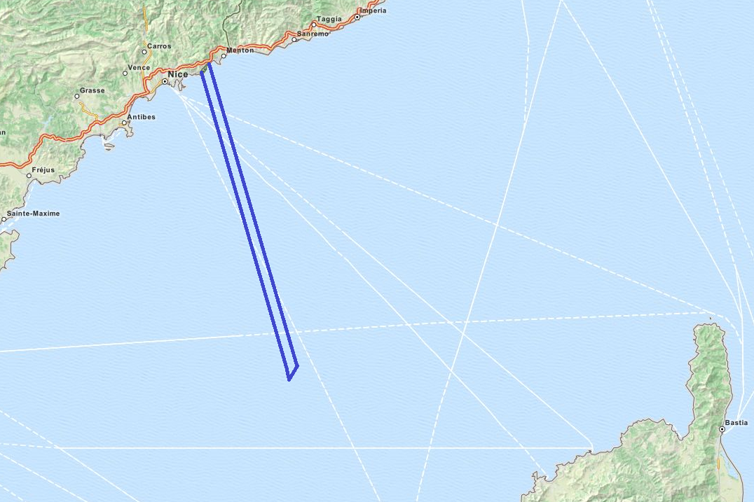 Maritime border of Monaco fixed in 1984 (